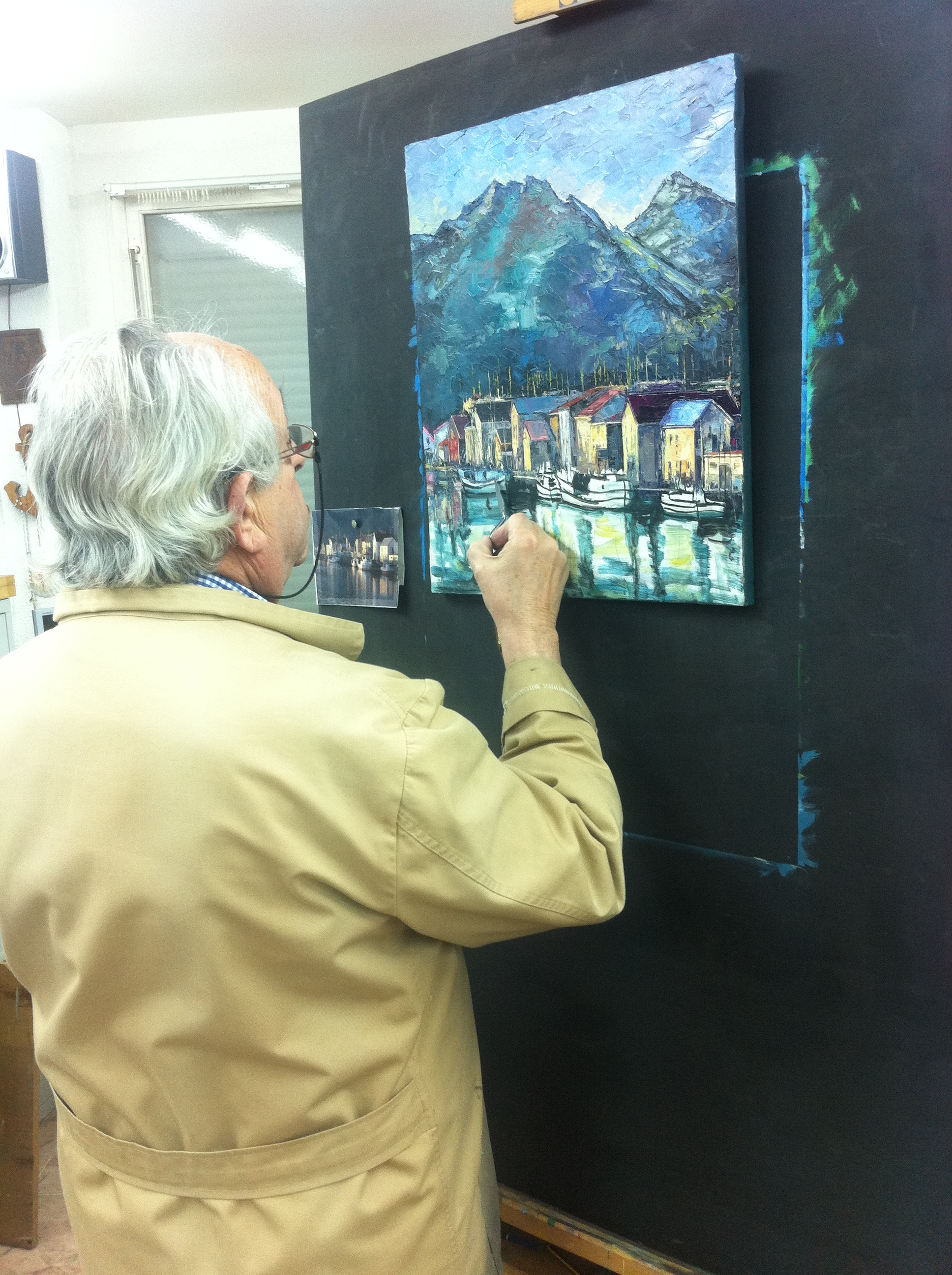 Pasajes pintando una obra reciente en 2012.